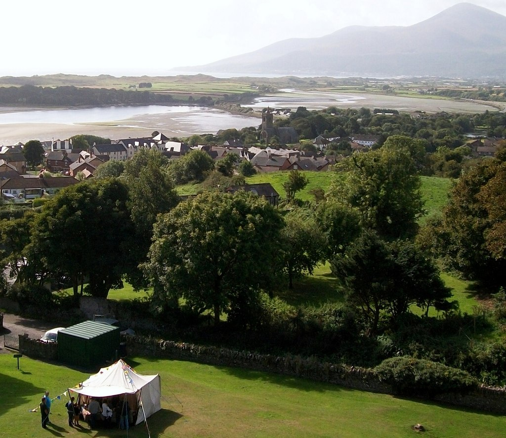 The Carrigs River estuary from the Gate House of Dundrum Castle